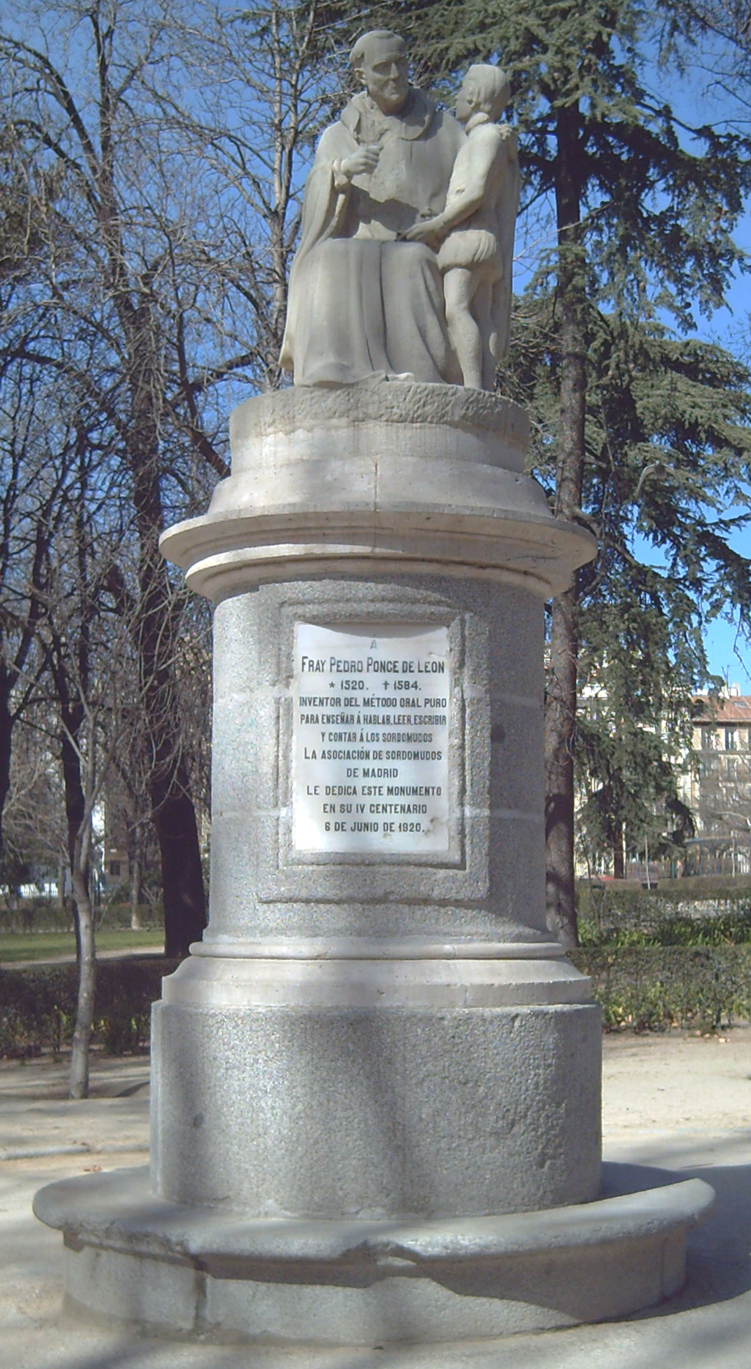 Monument dedicated to Pedro Ponce de León (1520–1584) by the Madrid's deaf-mutes association in 1920. Built in the Retiro Park in Madrid (Spain). Figures were made by deaf sculptor Manuel Iglesias Recio.